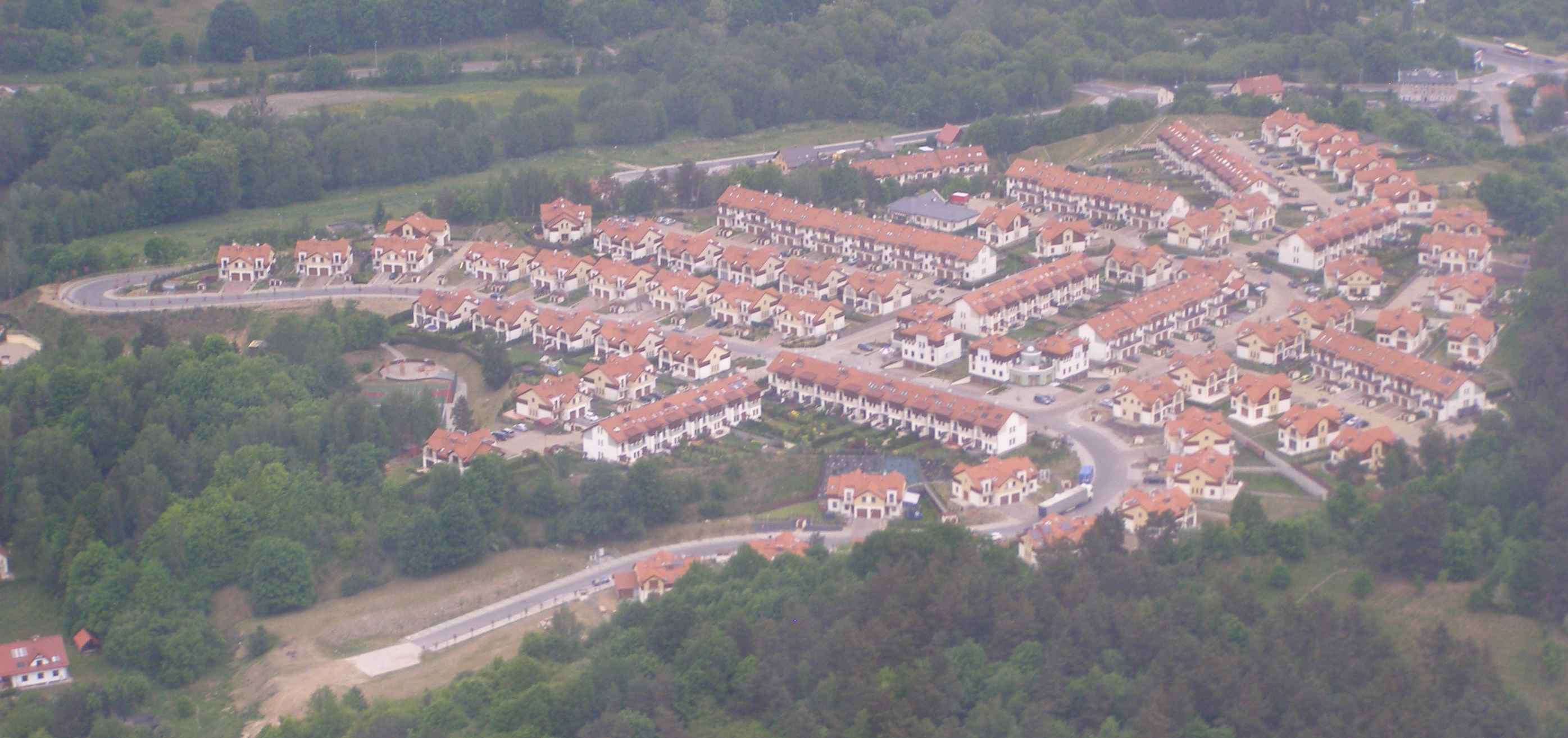 Gdańsk - Nowiec neighbourhood